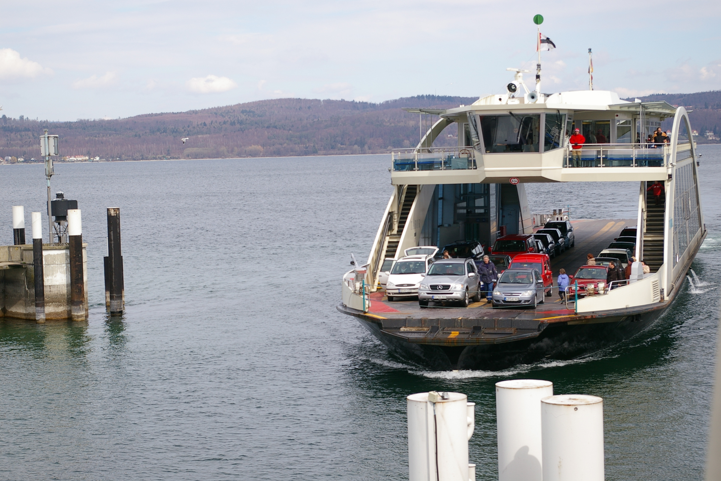 Ferry Tabor - see Image:Konstanz Meersburg Bodensee Ferry Tabor.jpg - arriving at Ferry terminal Konstanz-Staad. She is the newest and most modern of all on the line Konstanz-Meersburg, and the biggest of all vehicles on Bodensee